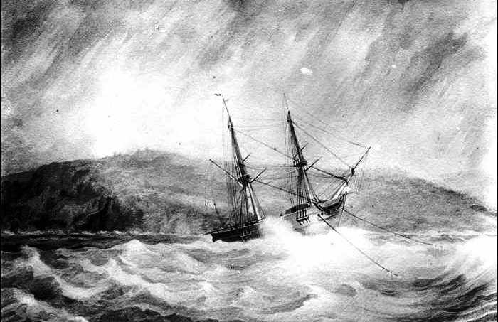 Brig Rapid in storm near Rapid Bay, South Australia. Painted by William Light.c